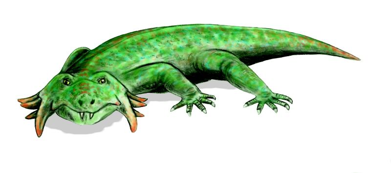 Hypsognathus, a Late Triassic Procolophonid from North America, pencil drawing